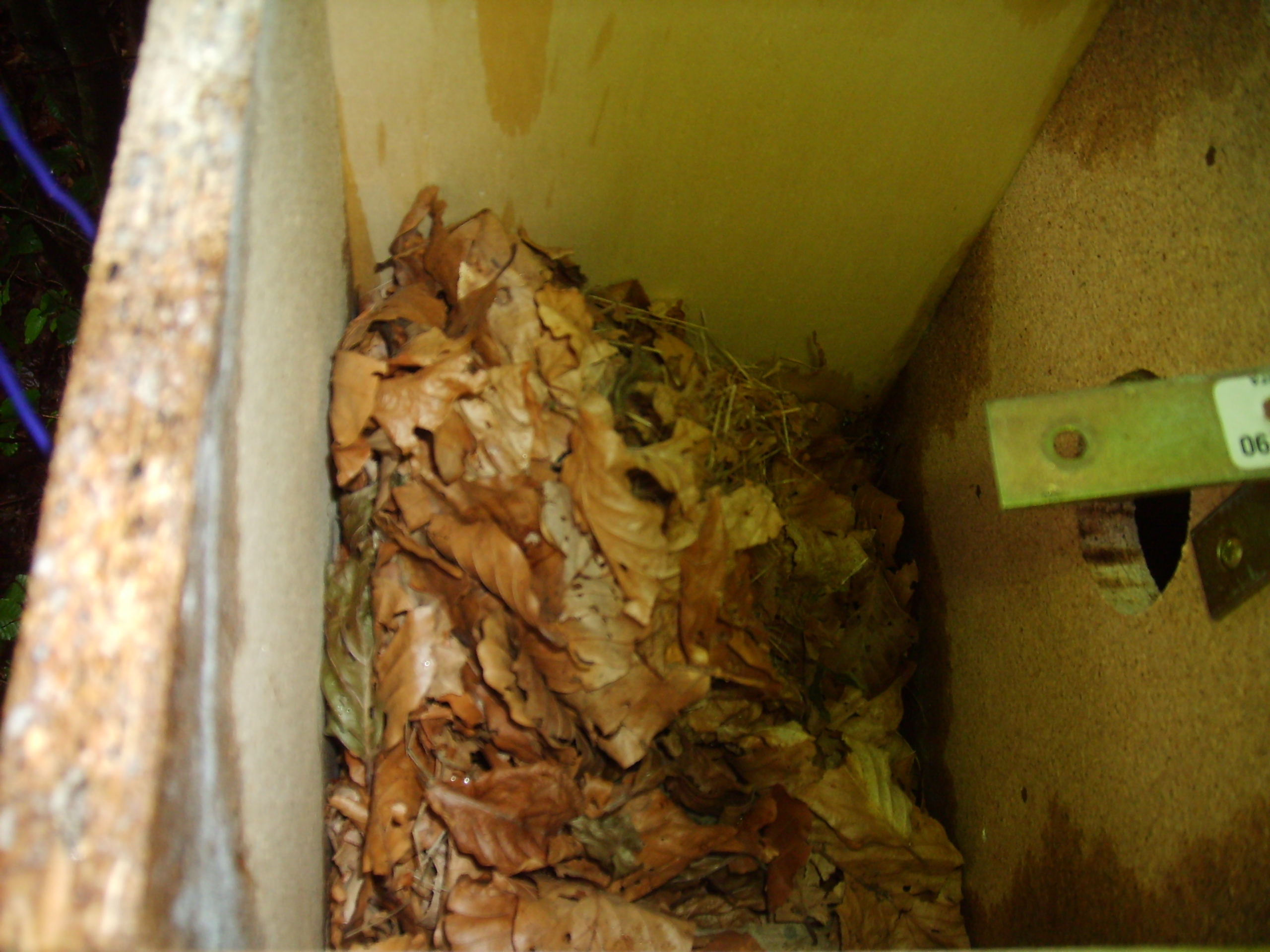 A nest of a Muscardinus avellanarius in a nest box in Interlaken, Switzerland.